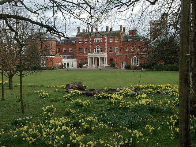 Theobalds Park A Georgian mansion, Built in 1763, now a De Vere Heritage Hotel.